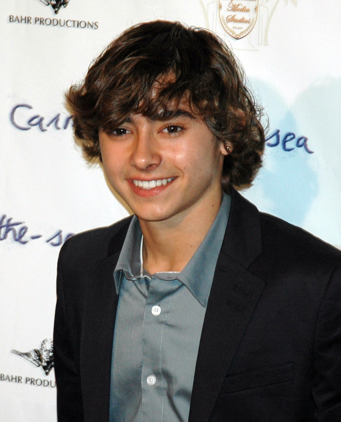 RealTVfilms PHOTOS Carmel By The Sea Movie Screening and Red Carpet in Hollywood